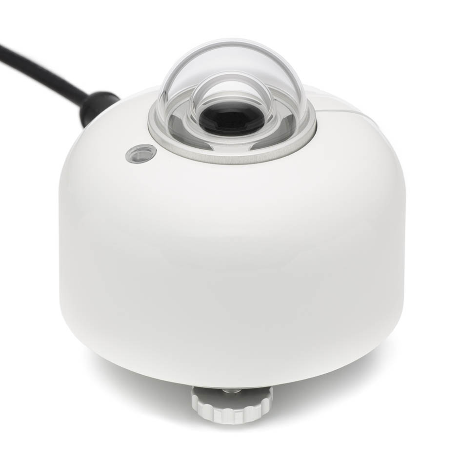 Pyranometer (Hukseflux model SR30) for measurement of global solar radiation. Conforms to ISO 9060 "secondary standard"